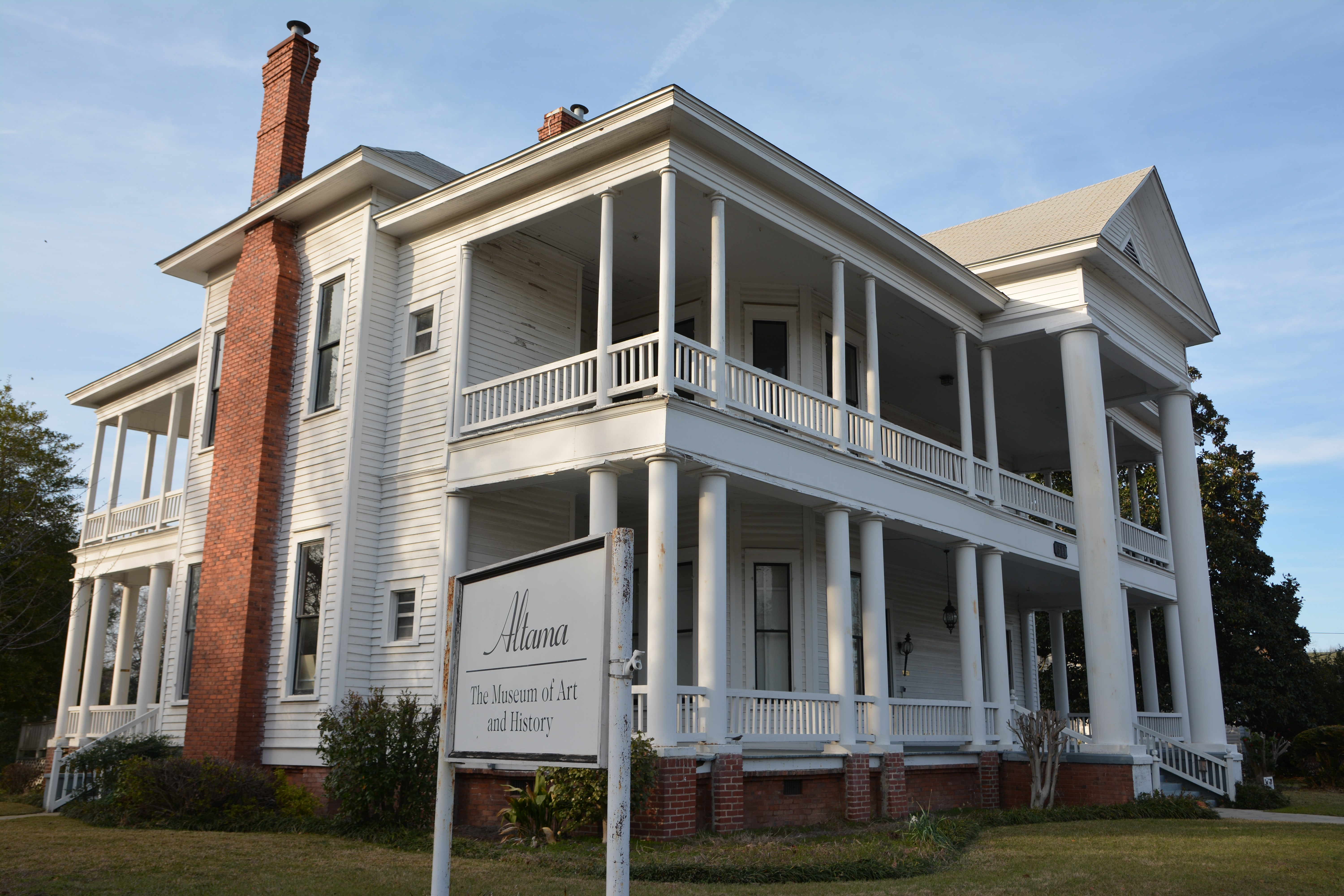 Crawford W. Brazell House, Vidalia, Georgia, US